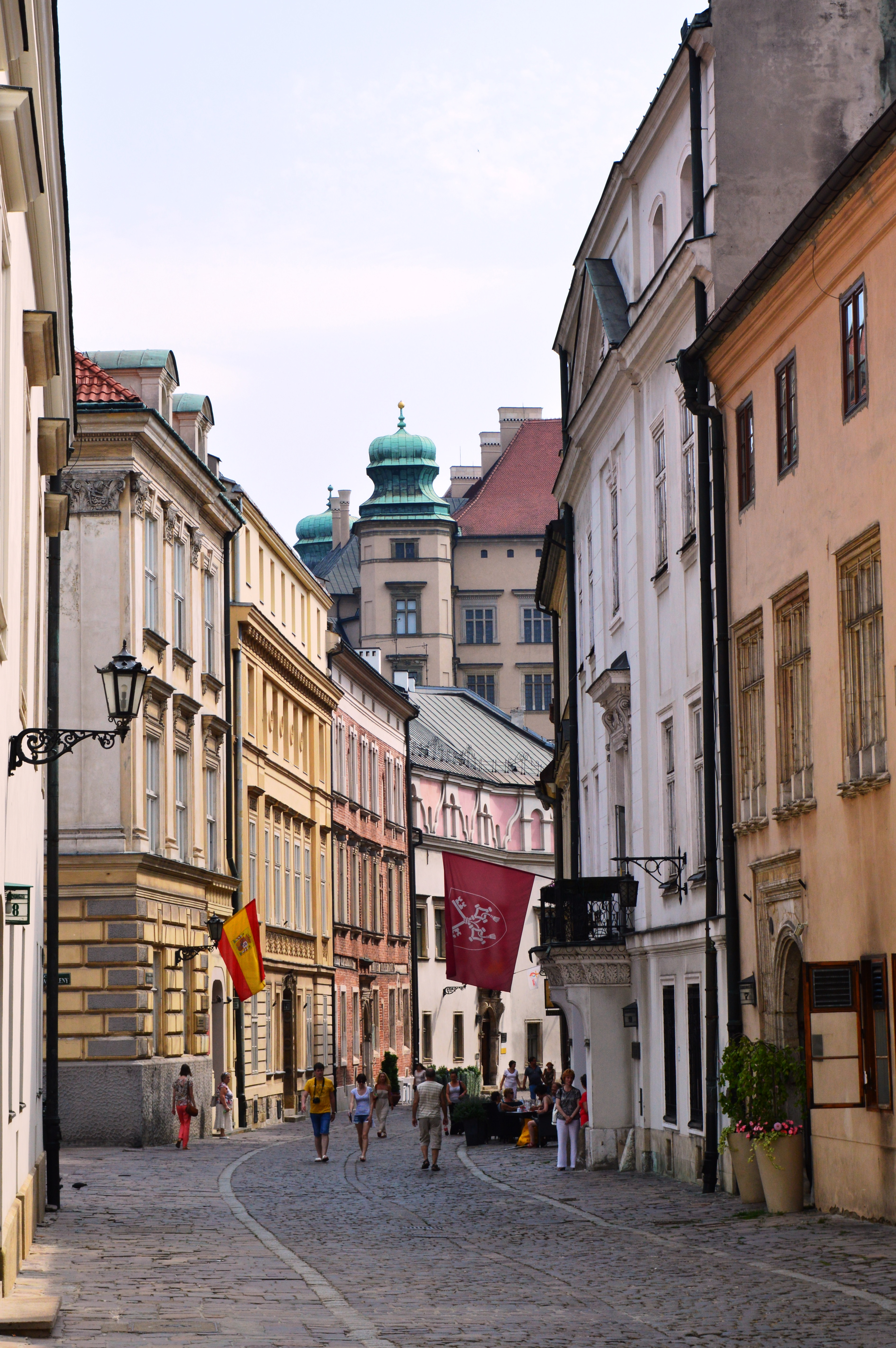 Old city street in Cracow (Kraków), Poland. The Scotch Mist Gallery contains many photographs of historic buildings, monuments and memorials of Poland.